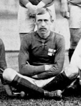 Erik Börjesson at the 1912 Summer Olympics